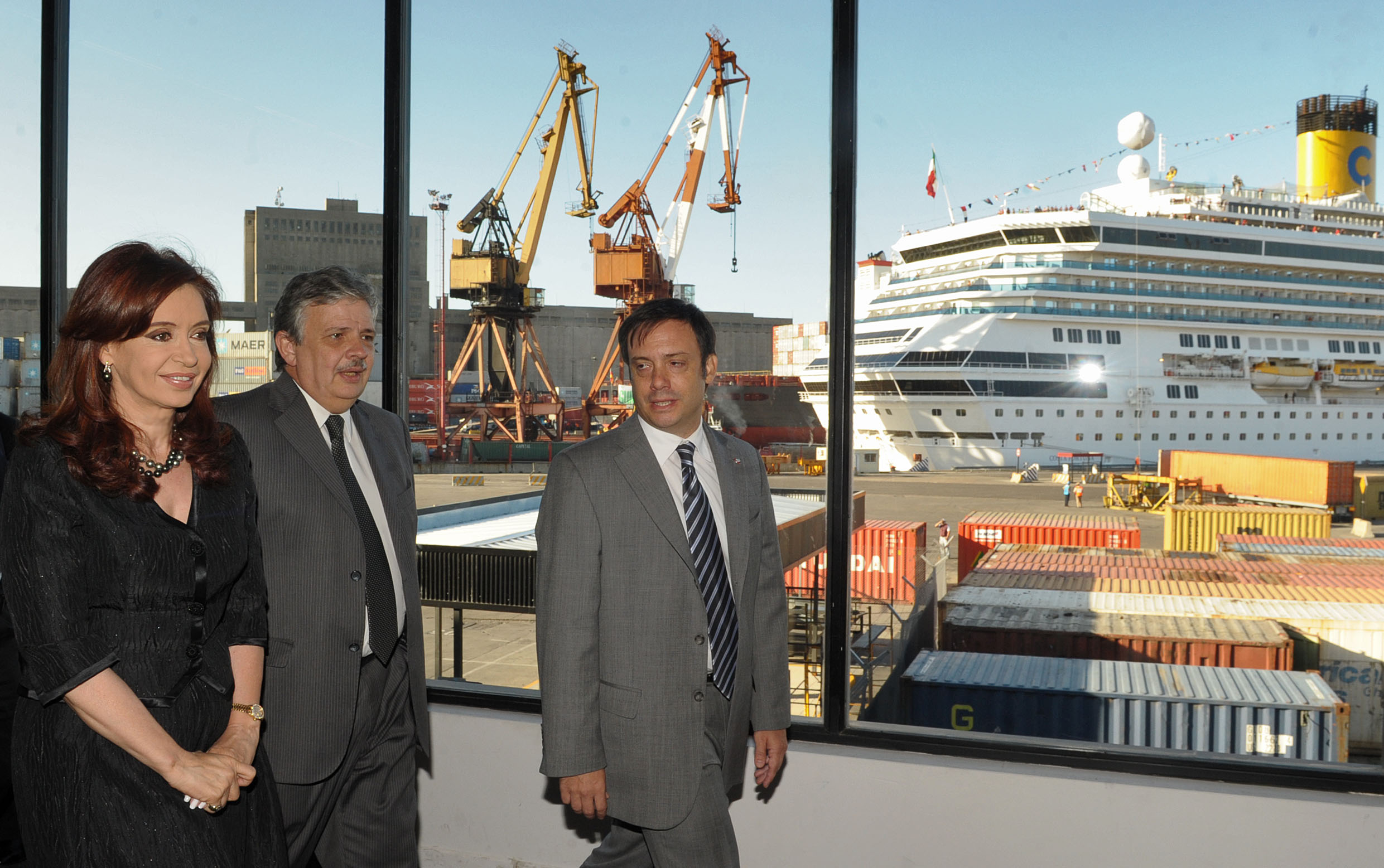 Cristina Fernandez de Kirchner with Secretary of Transportation at the opening of the cruise terminal Quinquela Martin